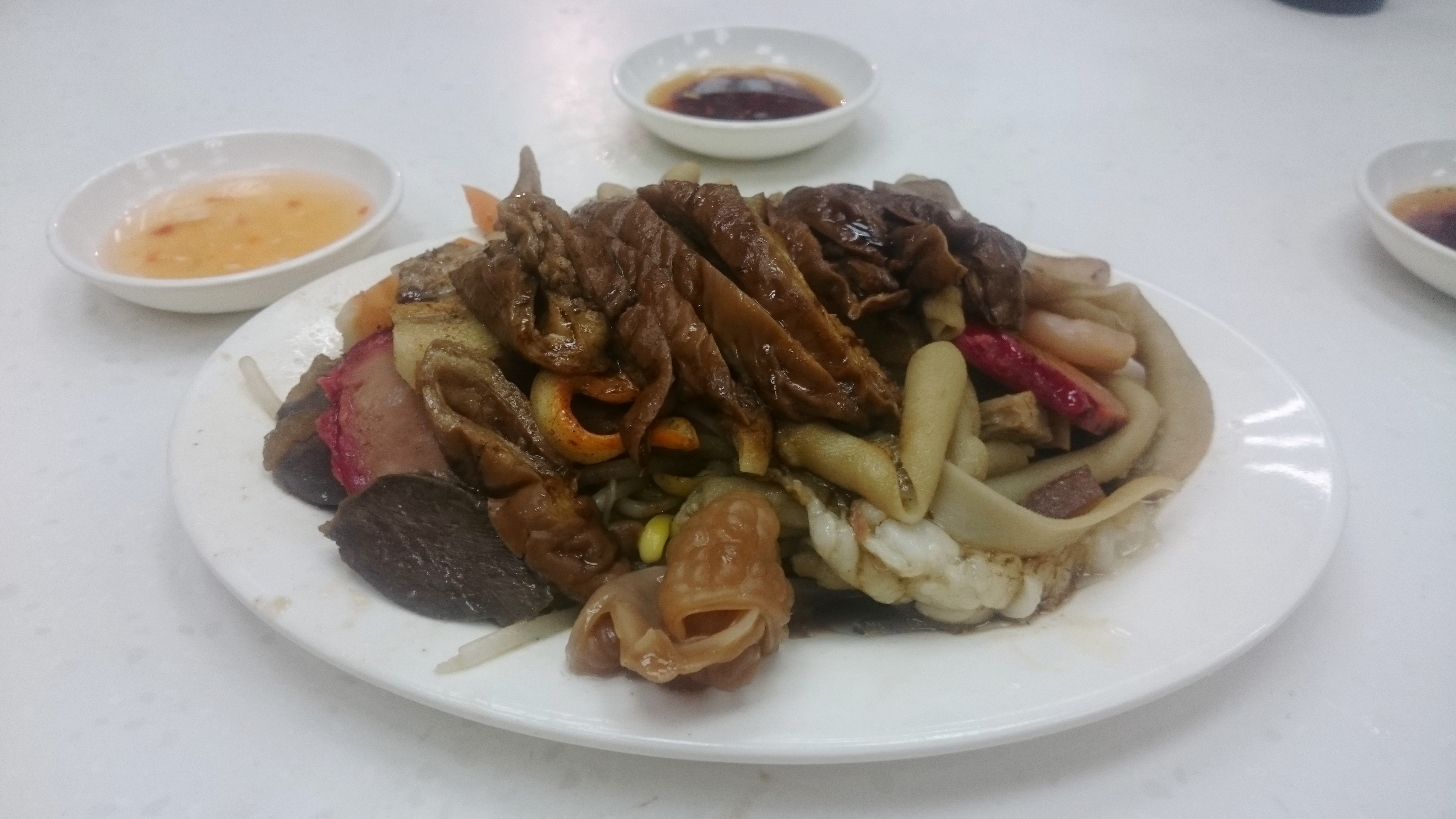 Different food like cattlefish, beancurd and goose pieces are cooked with marinate sauce